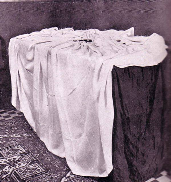 Papal vestments